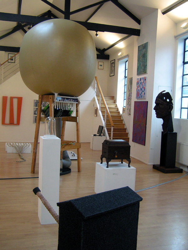 Photo from the London Group Open 2011 (Part 2) at the Cello Factory, London.